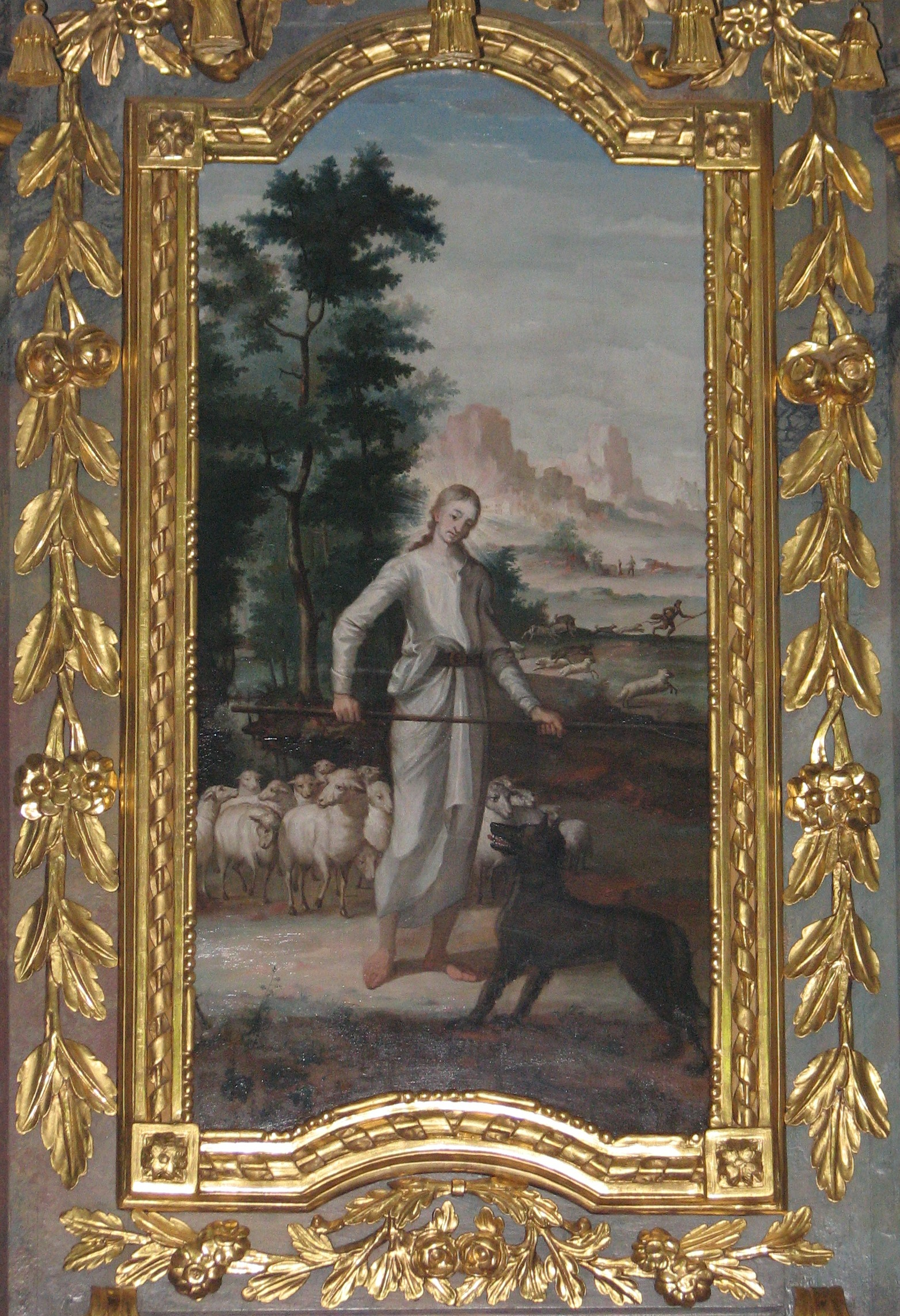 The photo depicts one of the most valuable icons of the Greek Catholic Cathedral of Hajdúdorog, Hungary. The title of the painting is the Good Shepherd that was painted on the end of the 18th century by unknown painter (most probably by Mihály Mankovics). The icon decorates the episcopal throne in the cathedral.